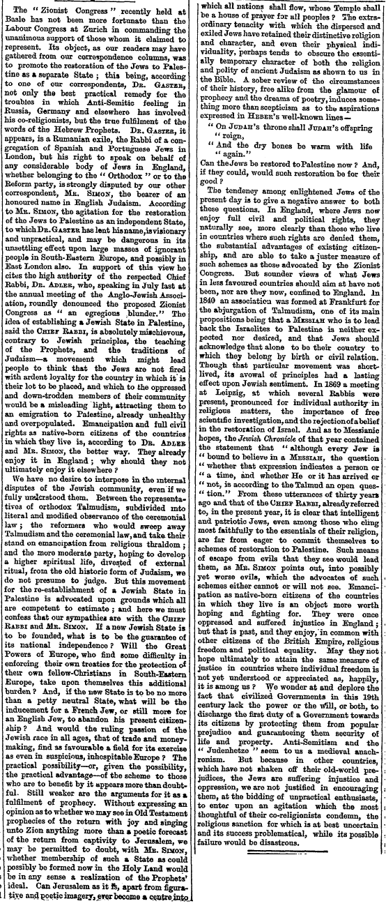 Zionist Congress, The Times, Saturday, Sep 04, 1897